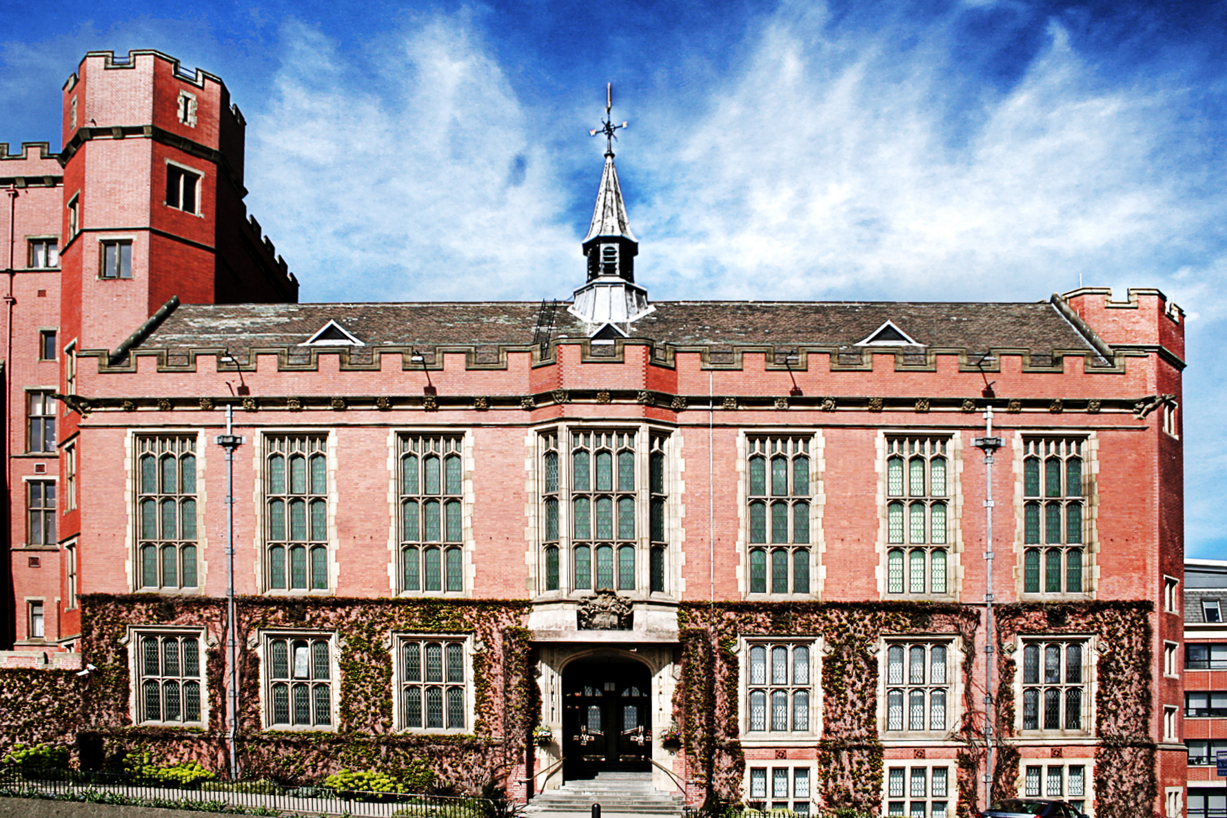 Firth Court, the main administrative centre for the University of Sheffield. Located in its city campus, Sheffield, England - constructed in the 1890s.